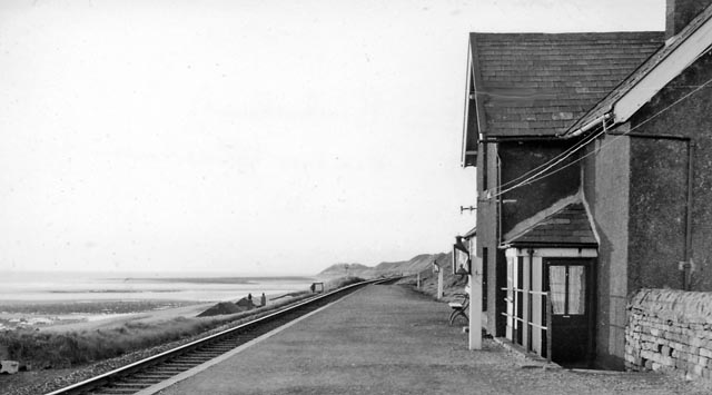 Braystones Station. View NW, towards Whitehaven; ex-Furness Rly. Carnforth - Barrow-in-Furness - Whitehaven line. This station is still open!